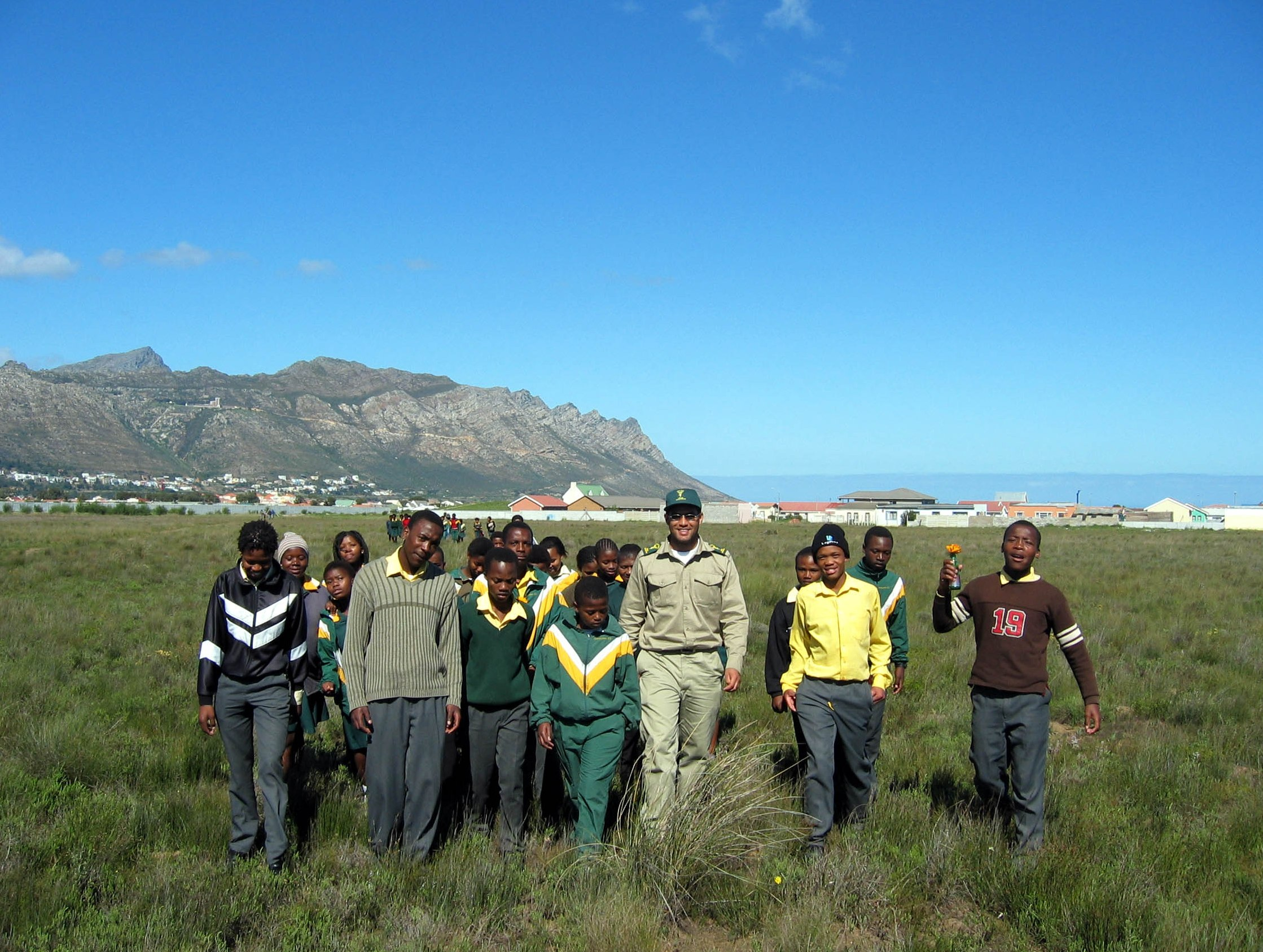 Photo taken of community outing on Harmony Flats Nature Reserve on Cape Flats.